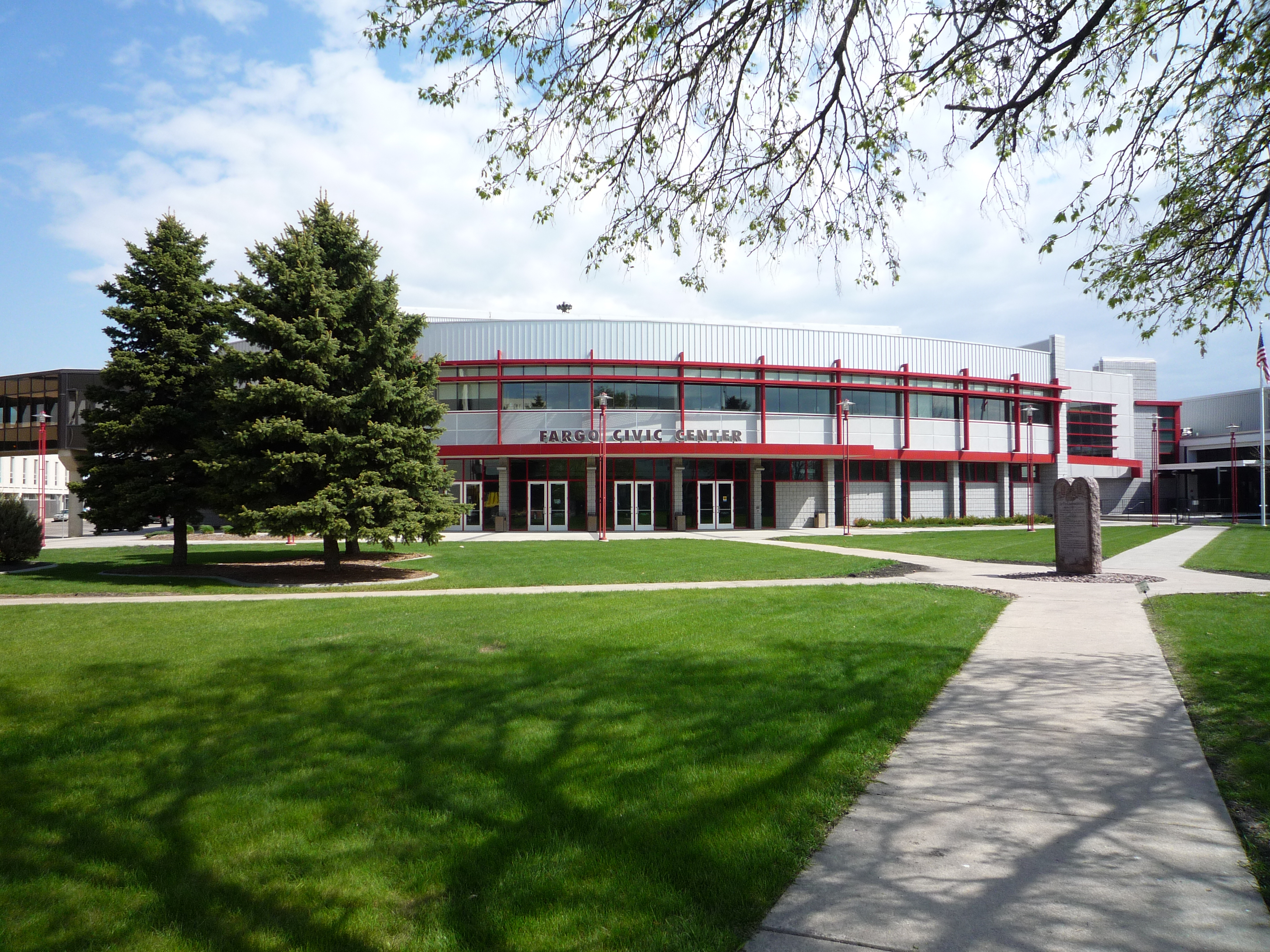 Fargo Civic Center, Fargo, North Dakota, USA.